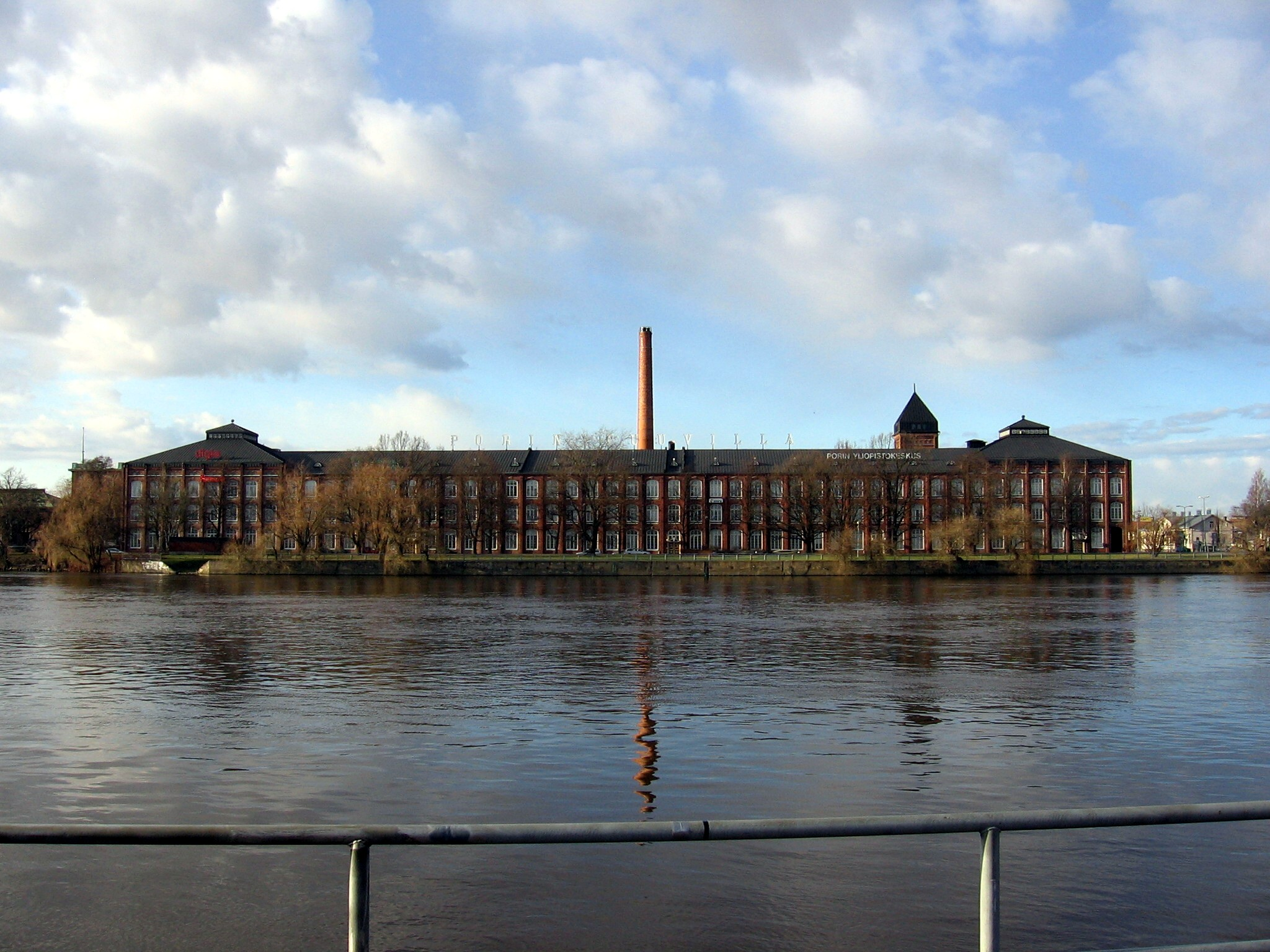 Pori cotton factory